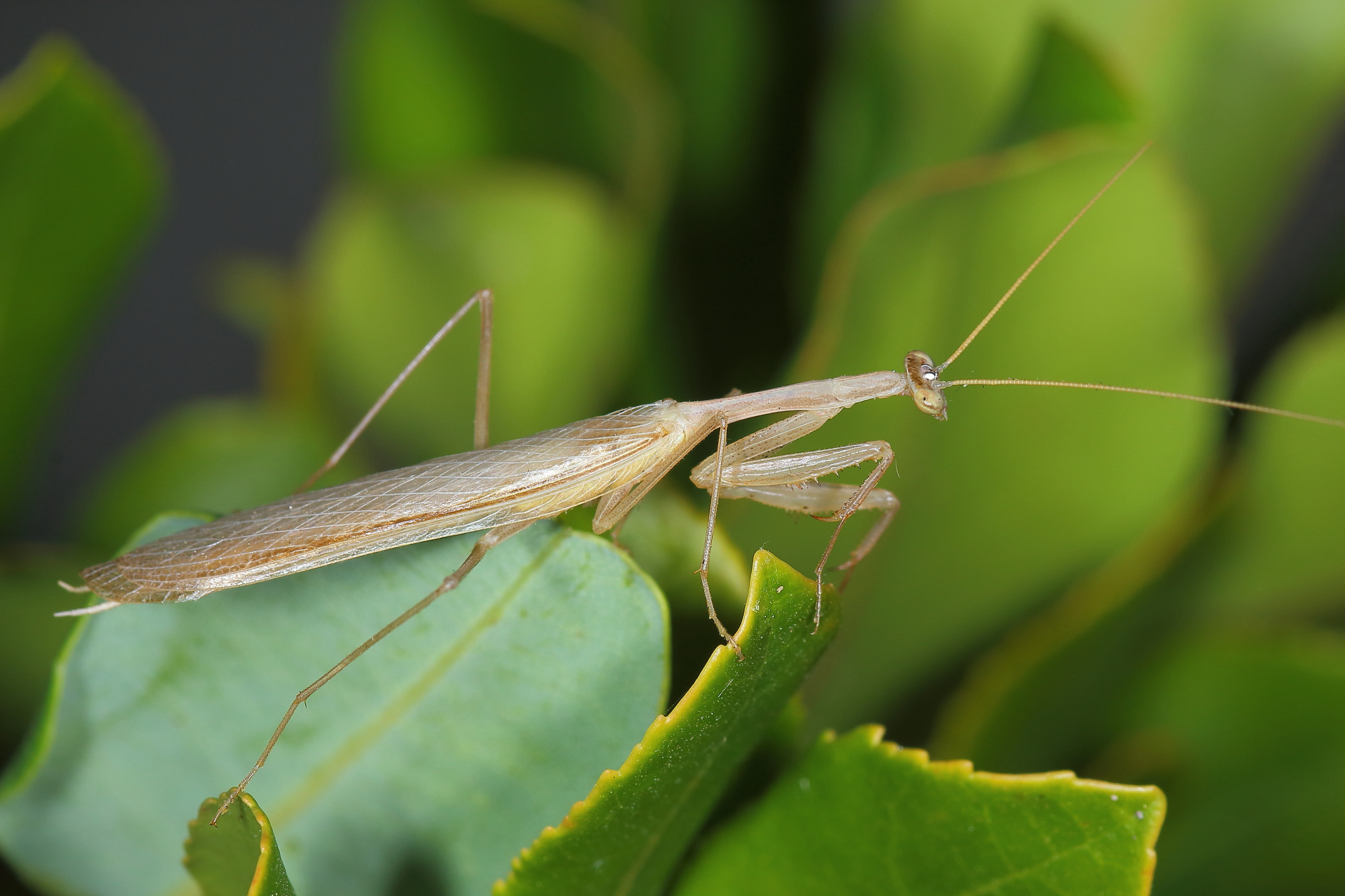 Miomantis paycullii. Dorso-lateral habitus view. Note hyaline forewings with obscured radial vein.